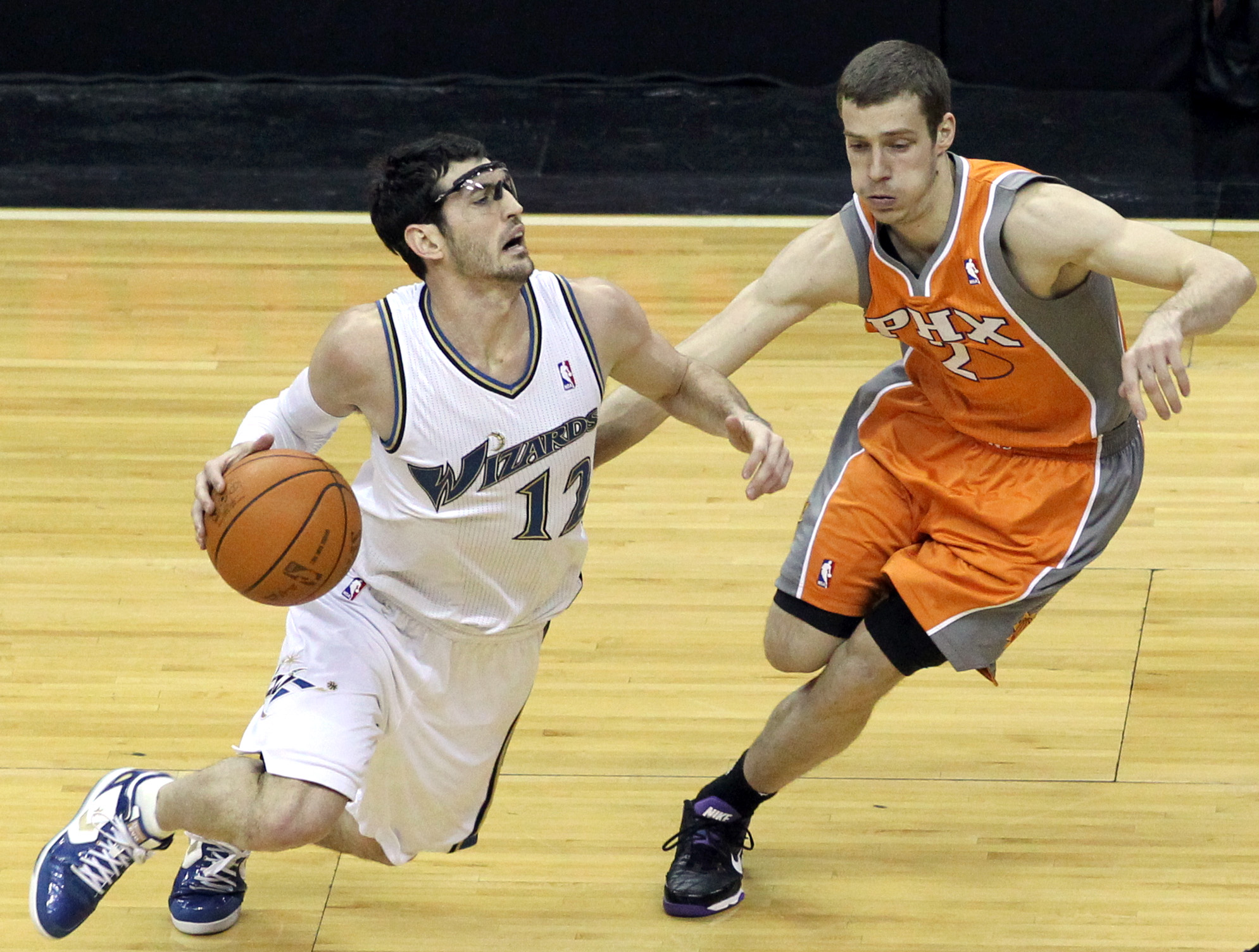 Washington Wizards v/s Phoenix Suns January 21, 2011